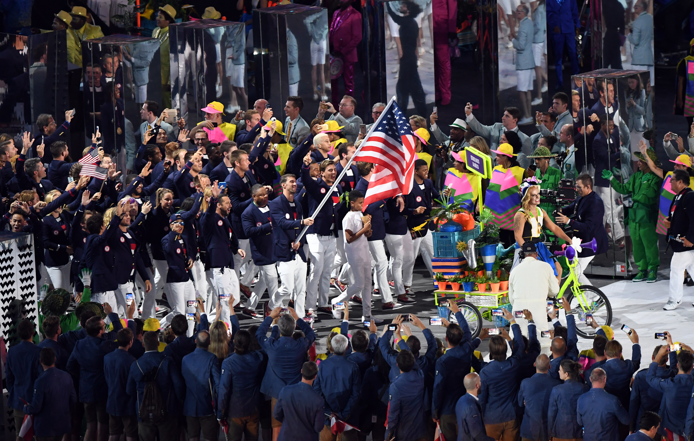 Twenty-two time Olympic medalist swimmer Michael Phelps carries the Stars & Stripes to lead Team USA into Maracana Stadium during the Opening Ceremony of the 2016 Olympic Games in Rio de Janeiro, Brazil, on August 5.